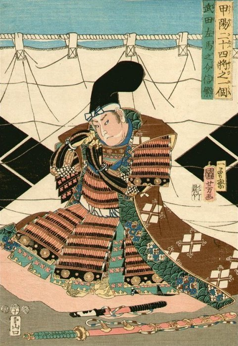 portrait of Takeda_Nobushige